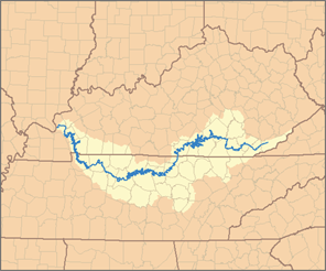 This is a map of the Cumberland River watershed. I, Pfly, made it, based on USGS data.